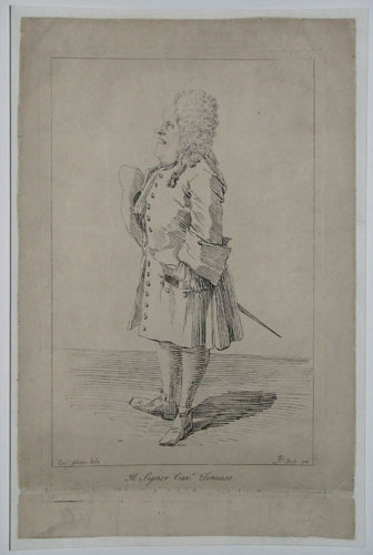 A caricature of Sir Thomas Dereham (ca. 1678-1739), a Baronet and Jacobite resident in Italy, with a wig and sword and hat under his arm.